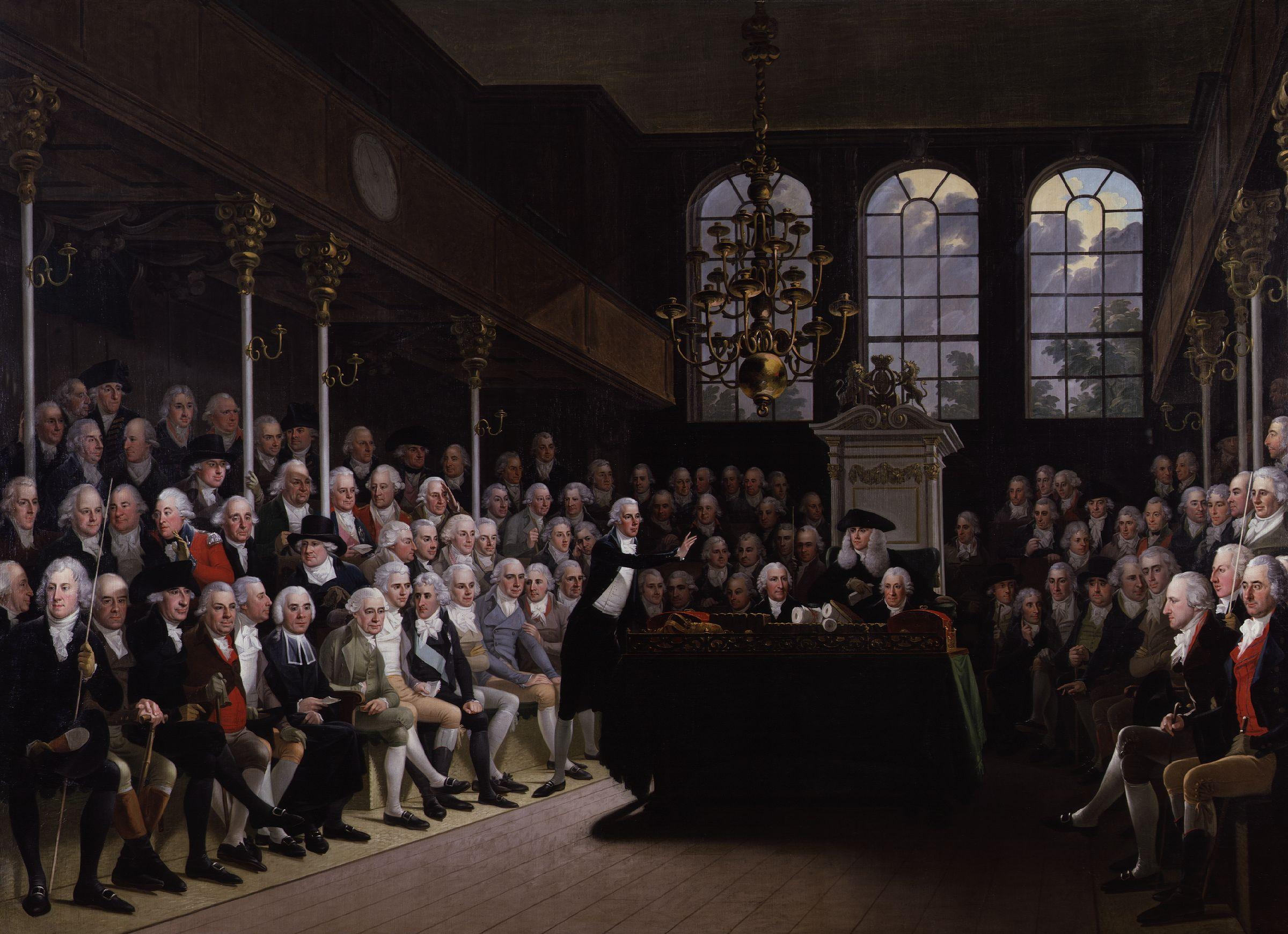 The House of Commons 1793-94, by Karl Anton Hickel (died 1798), given to the National Portrait Gallery, London in 1885. All images in this batch have been confirmed as author died before 1939 according to the official death date listed by the NPG.